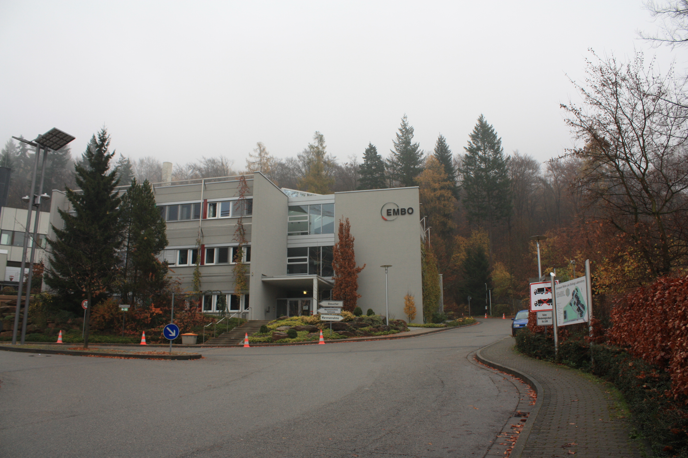 The entrance to the EMBL compound in Heidelberg